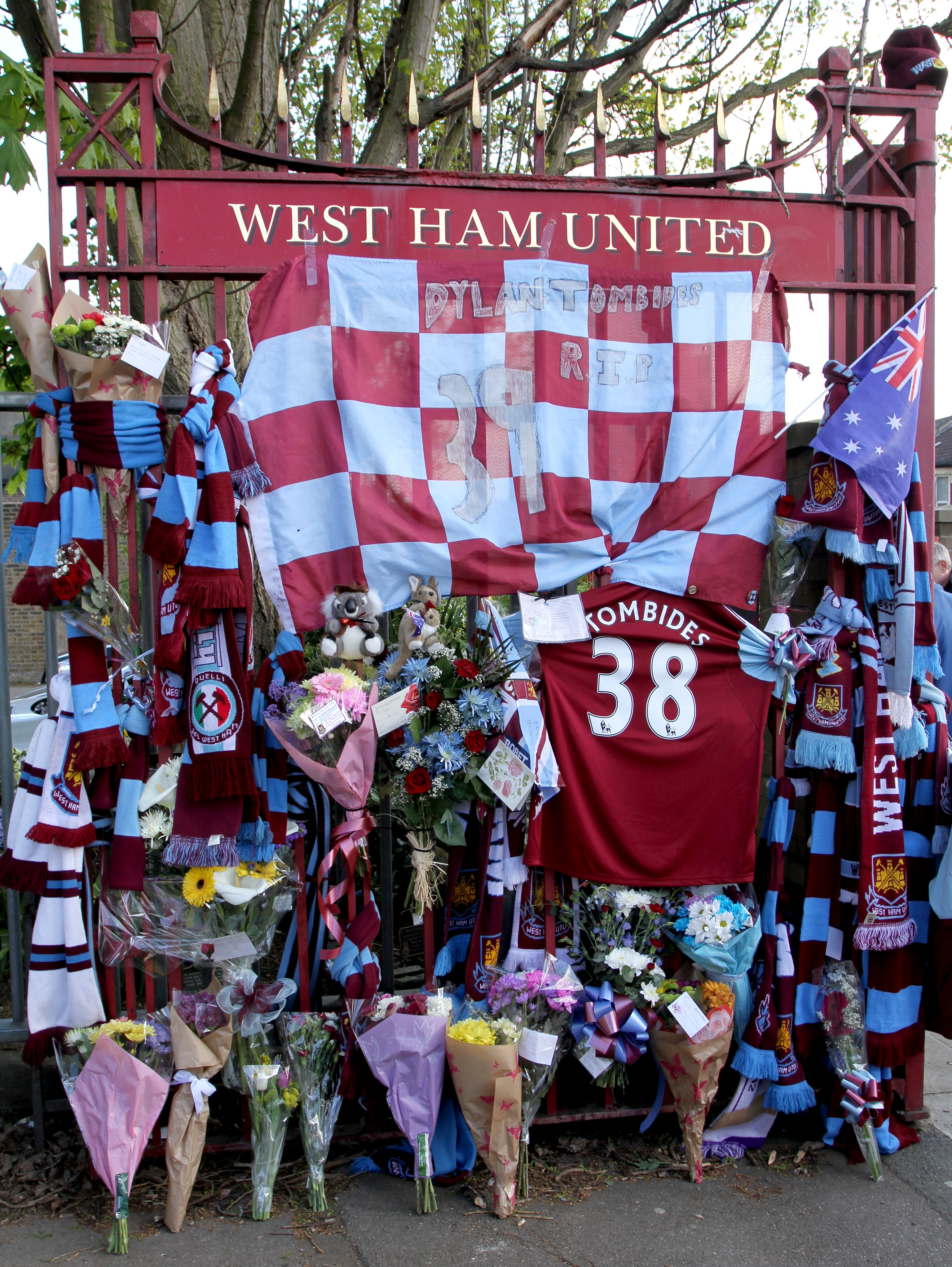 Fans' Tribute to Dylan Tombides at the Boleyn Ground, Upton Park